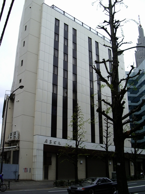 The AS building where The AKAHATA editorial department enters in Tokyo